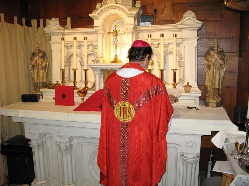 Latin Mass, said wearing a red gothic chasuble with orphreys